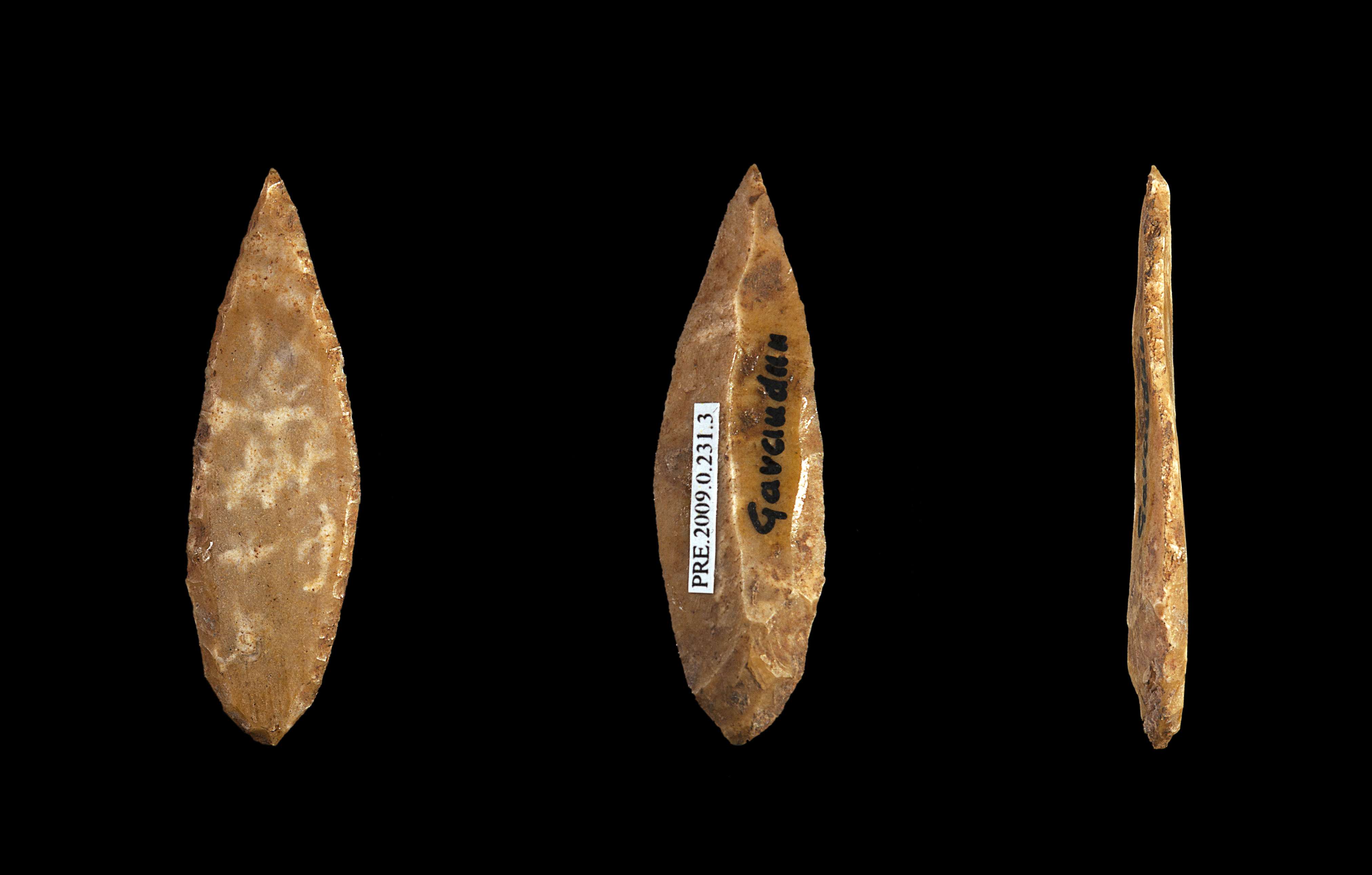 Small fléchette - Different views of the same specimen